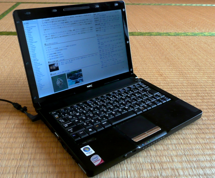 NEC LaVie J LJ730/L.